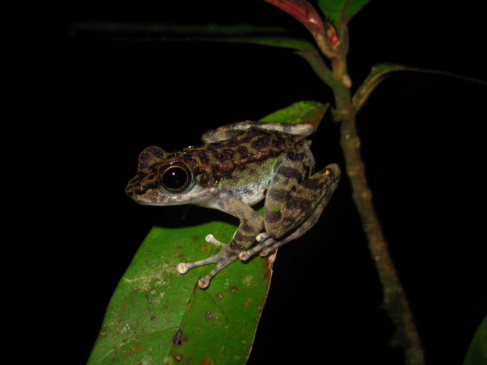 Amolops panhai from Thailand